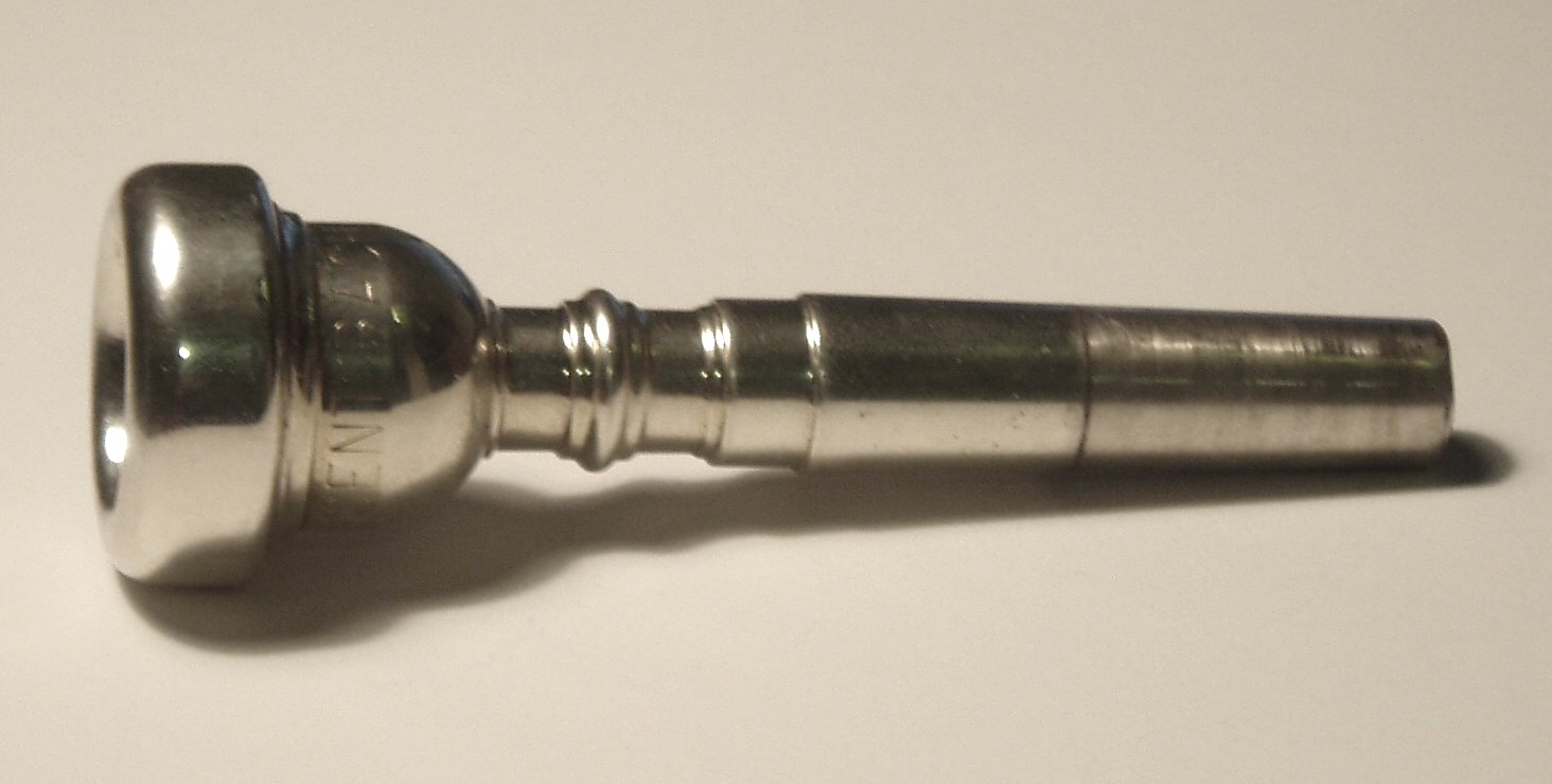 By Richard Wheeler (Zephyris) 2006. Selfmade photograph.